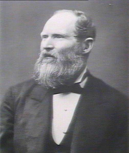 Depicted person: James Farnell – Australian politician and Premier of New South Wales